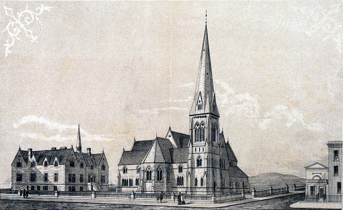 Reproduction of an image of the Molyneux Church and asylum that appeared in The Irish Builder magazine in April 1860.